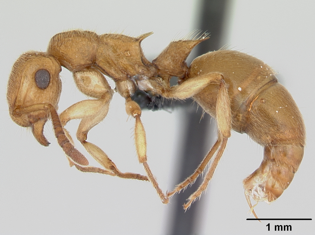 Profile view of ant Acanthoponera minor specimen casent0039772.